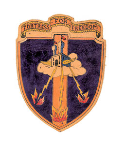 Emblem of the USAAF 388th Bombardment Group (World War II)